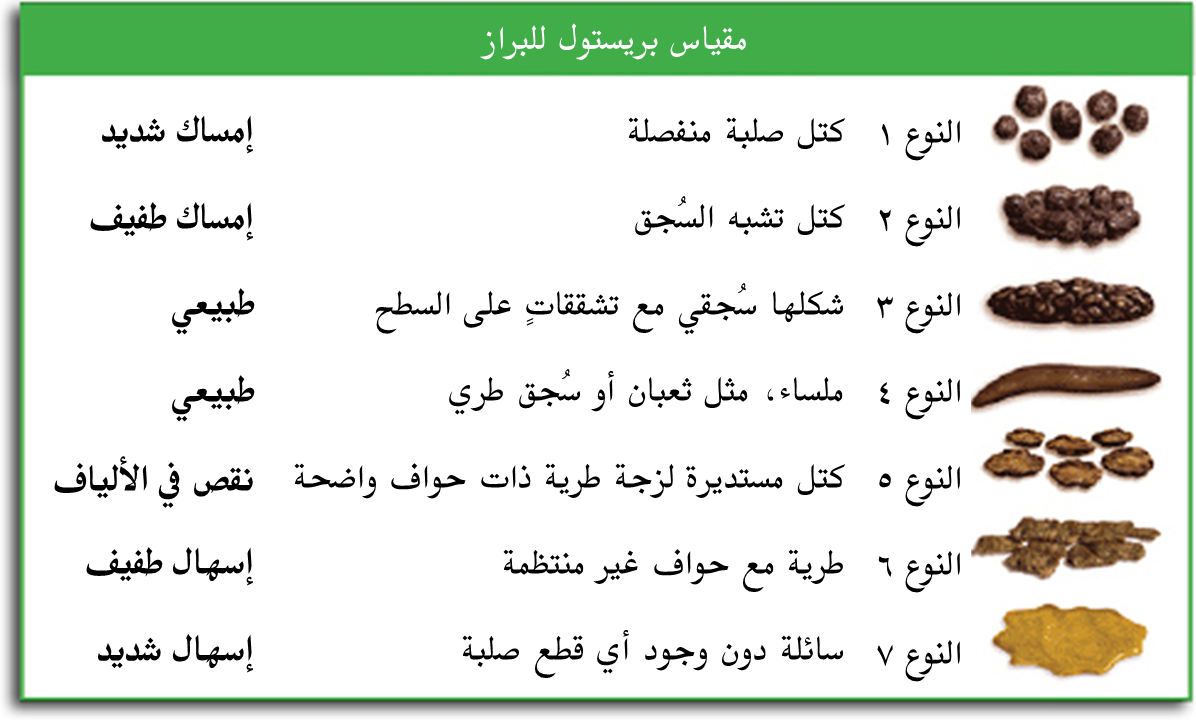 Bristol stool chart.